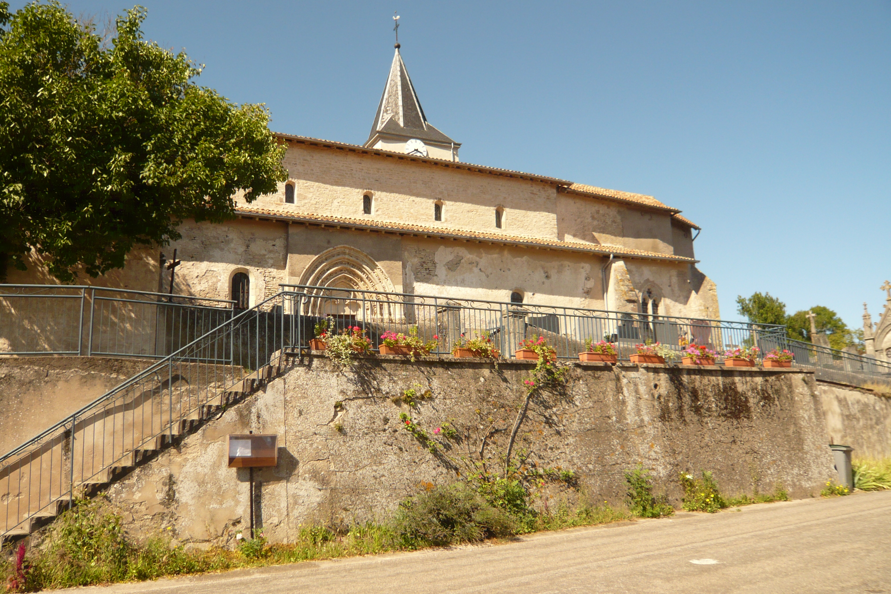 Roman church Froville, France